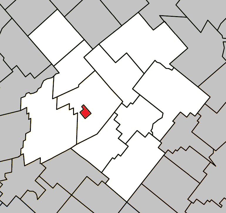 Location of Plessisville (city), Quebec within L'Érable Regional County Municipality.